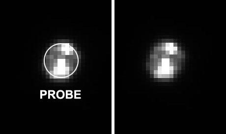 "The European Space Agency's Huygens Probe appears shining as it coasts away from Cassini in this close-up of an image taken on Dec. 26, 2004, just two days after it successfully detached from the Cassini spacecraft. Shown here side-by-side is a close-up of the Huygens probe. The image on the left shows the relative size of the probe. The bright spots in both images are probably due to light reflecting off the blanketing material that covers the probe. Although only a few pixels across, this image is helping navigators reconstruct the probe's trajectory and pinpoint its position relative to Cassini. This information so far shows that the probe and Cassini are right on the mark and well within the predicted trajectory accuracy. This information is important to help establish the required geometry between the probe and the orbiter for radio communications during the probe descent on January 14."